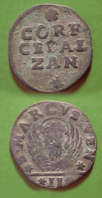 "Gazzetta": Venetian coin from the Ionian Islands, Giovanni Corner II., 1709 - 1722 CORF / CEFAL / ZAN in three linee (Corfù, Cefalonia, Zacinto. Saint Mark lion; S. MARCVS VEN.; in exergue II, i.e. the value od two soldi